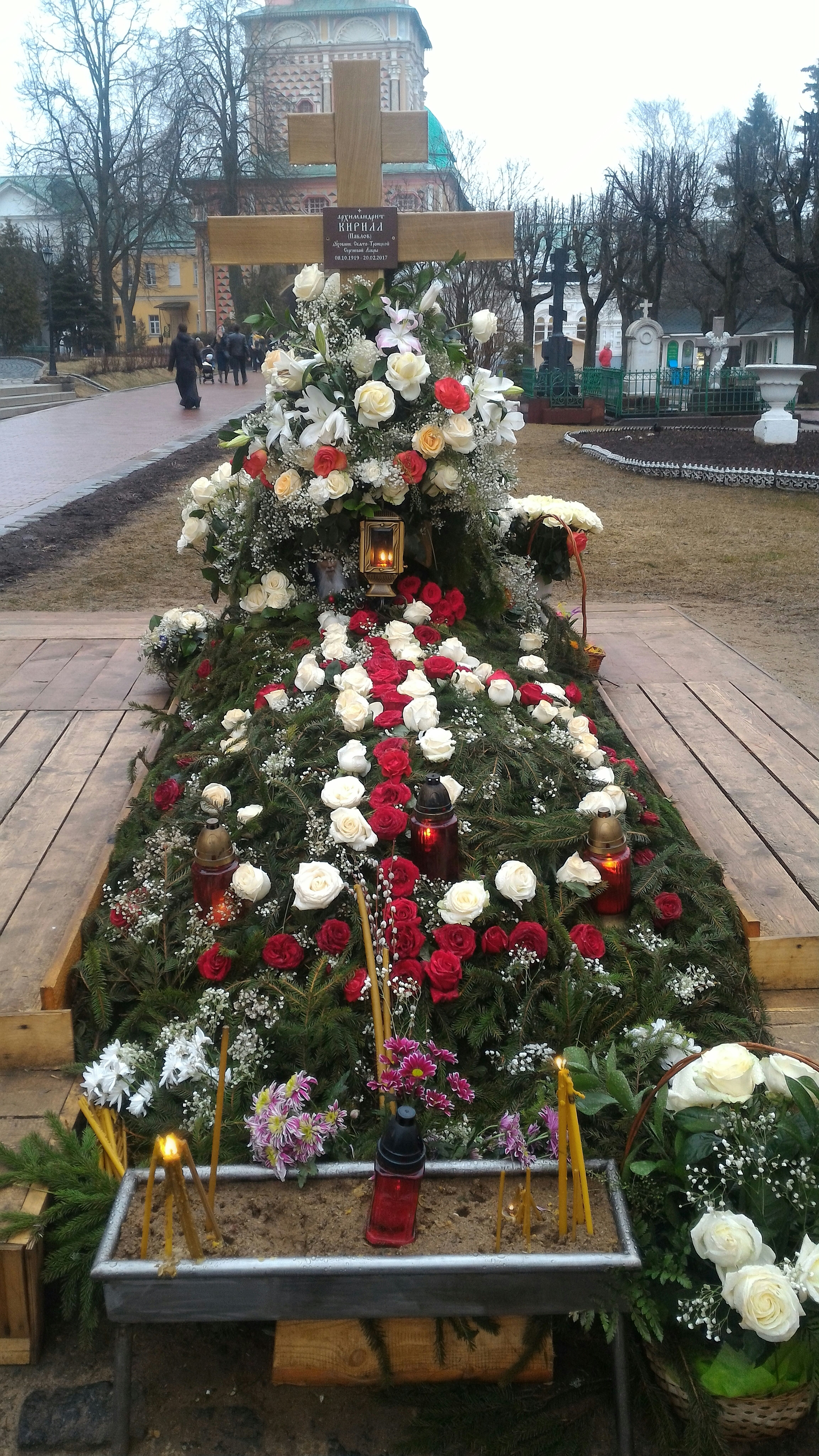 Могила архимандрита Кирилла Павлова.